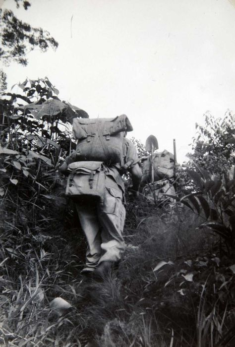 These Dutch soldiers belong to a unit from the infantry-regiment (5-4RI). Durch soldiers on patrol fully loaded. (remark: 5-4RI means "5 Bataljon 4 Regiment Infanterie")